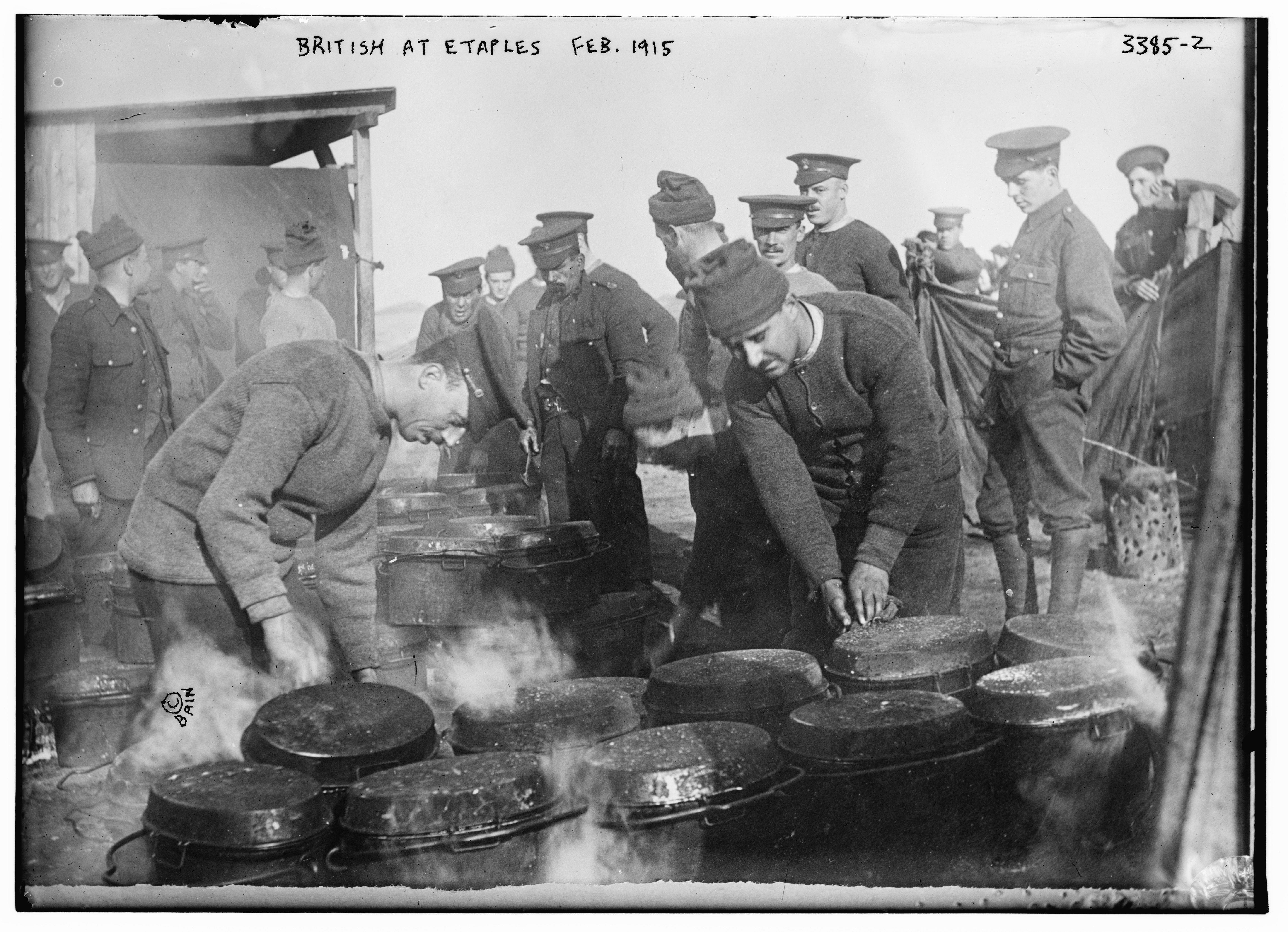 Title: British at Etaples, Feb. 1915 Abstract/medium: 1 negative : glass ; 5 x 7 in. or smaller.